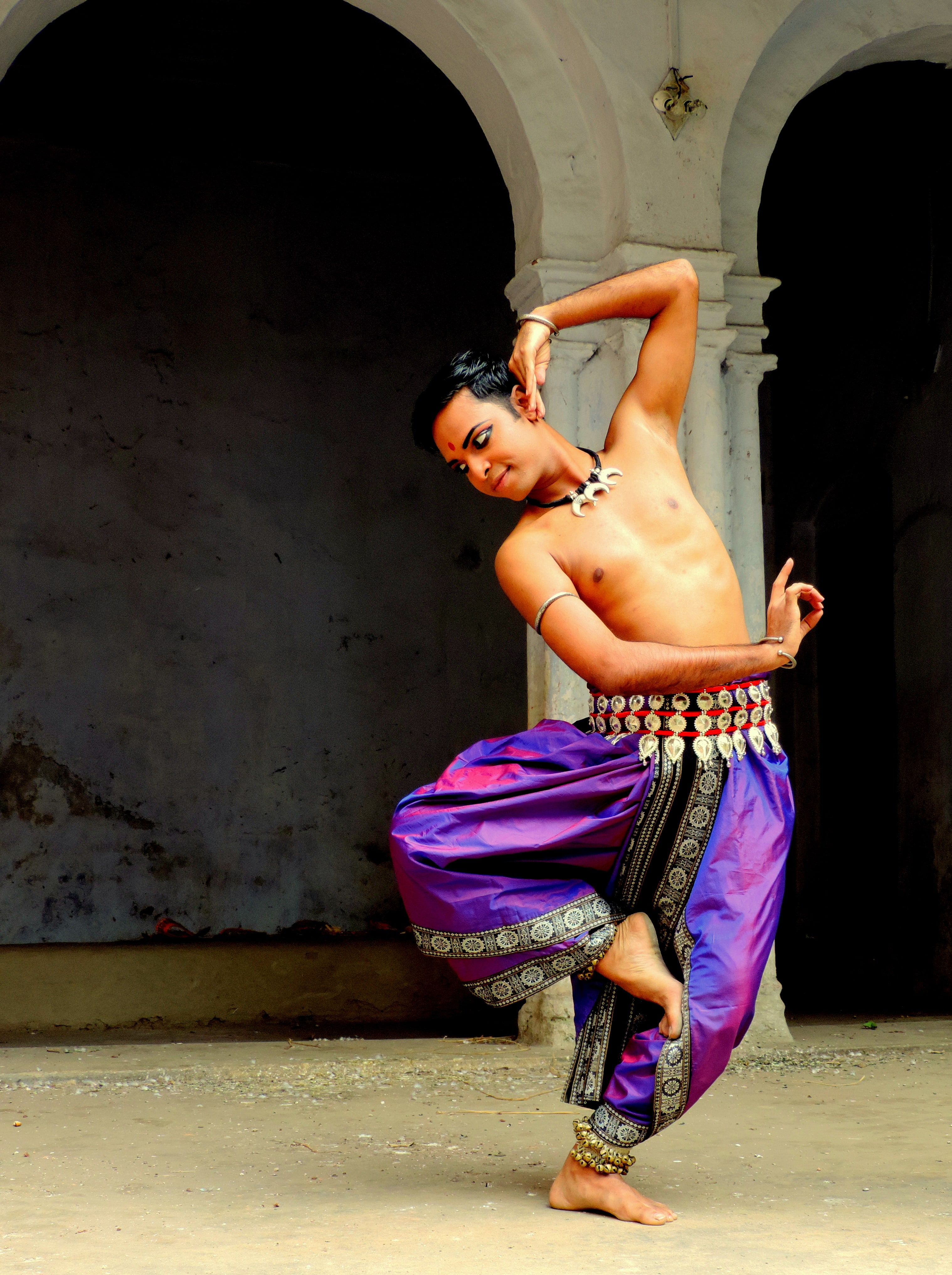 Odissi is a classical Indian dance that originated in Odisha, India